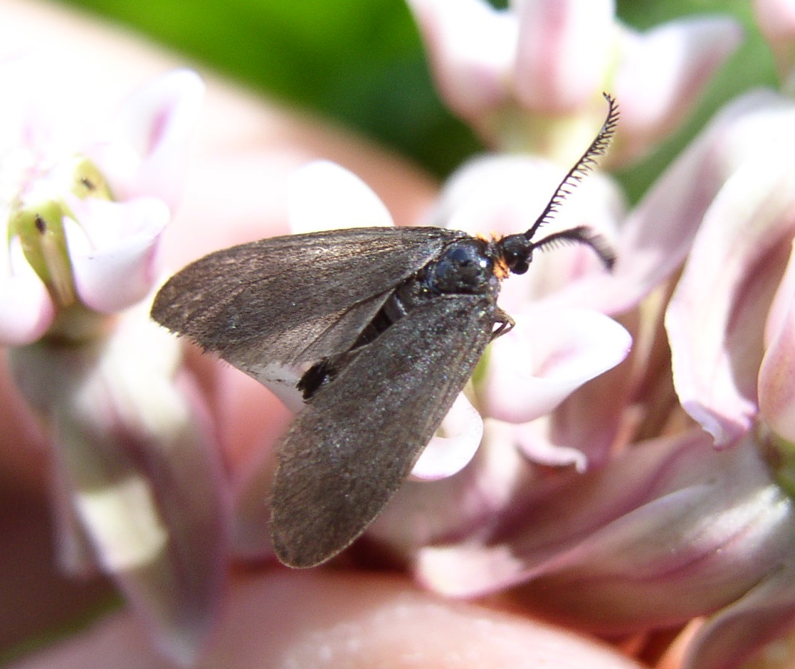 Zygaenid moth Acoloithus falsarius (Clemens' False Skeletonizer - Hodges#4629) trapped by a flower of common milkweed (Asclepias syriaca). Churchville Nature Center, Bucks County, Pennsylvania, USA.